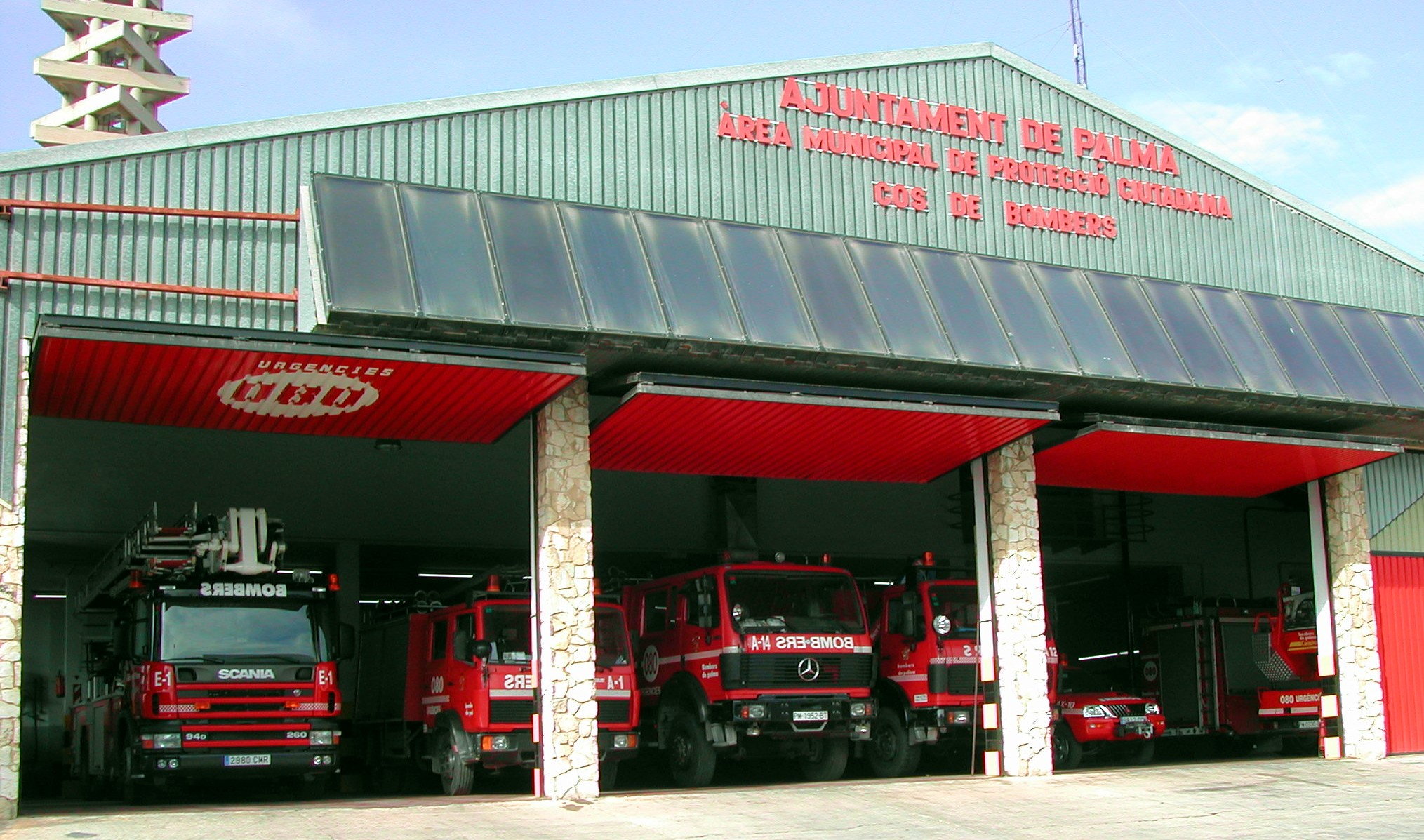 Fire brigade station at Palma.